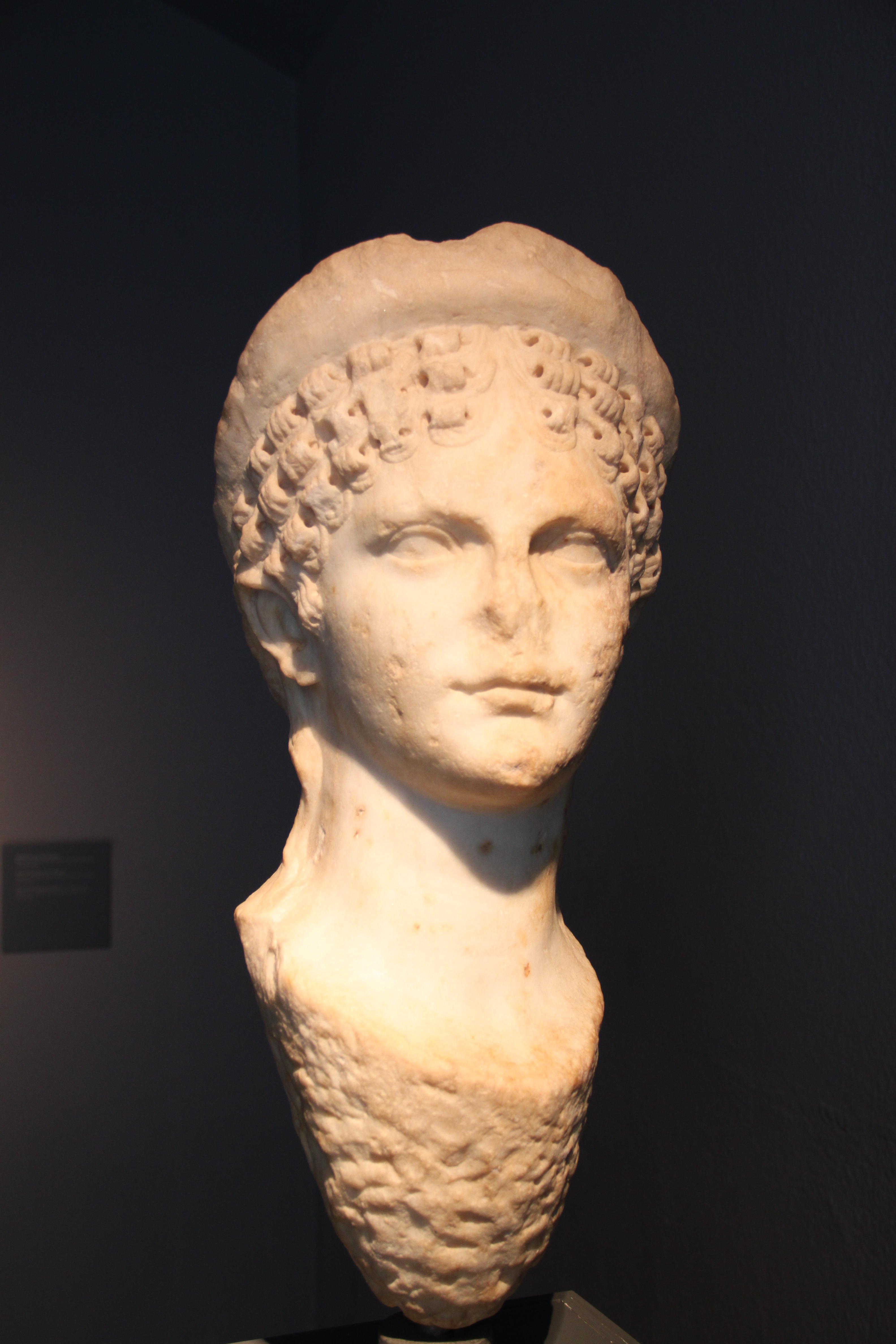 Marble portrait of a woman, 1st century AD. Attributed portrait of Agripina minor